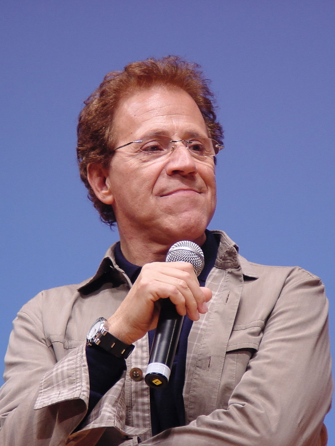 Italian actor Giacomo Rizzo at the Italian Film Festival in Tokyo, 29 April 2007